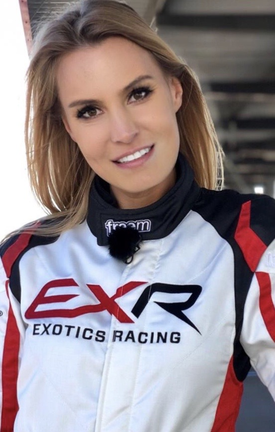 Doreen Seidel Selbstporträt.